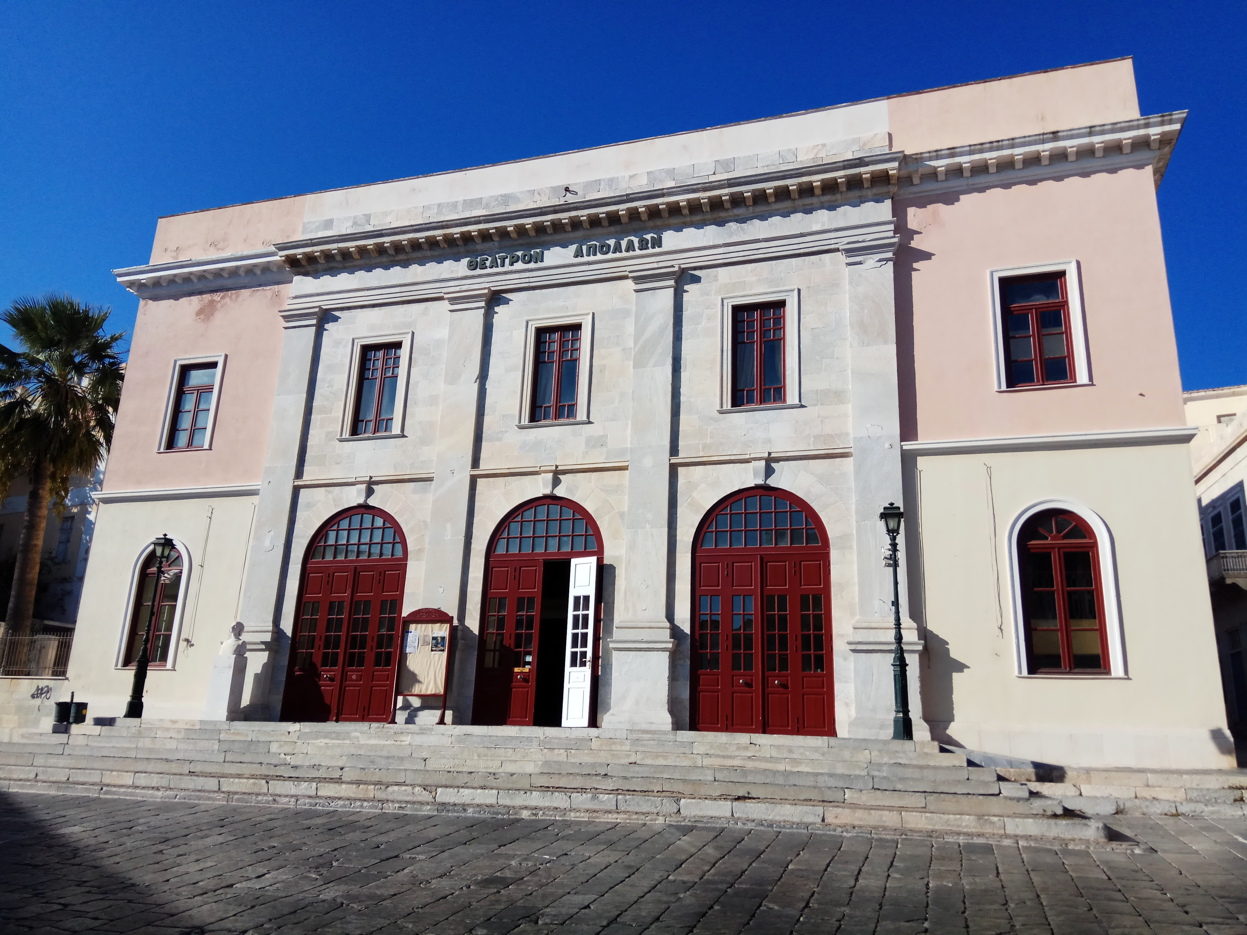 Front page of the Theatron Apollon in Ermoupoli, Syros island, Greece.